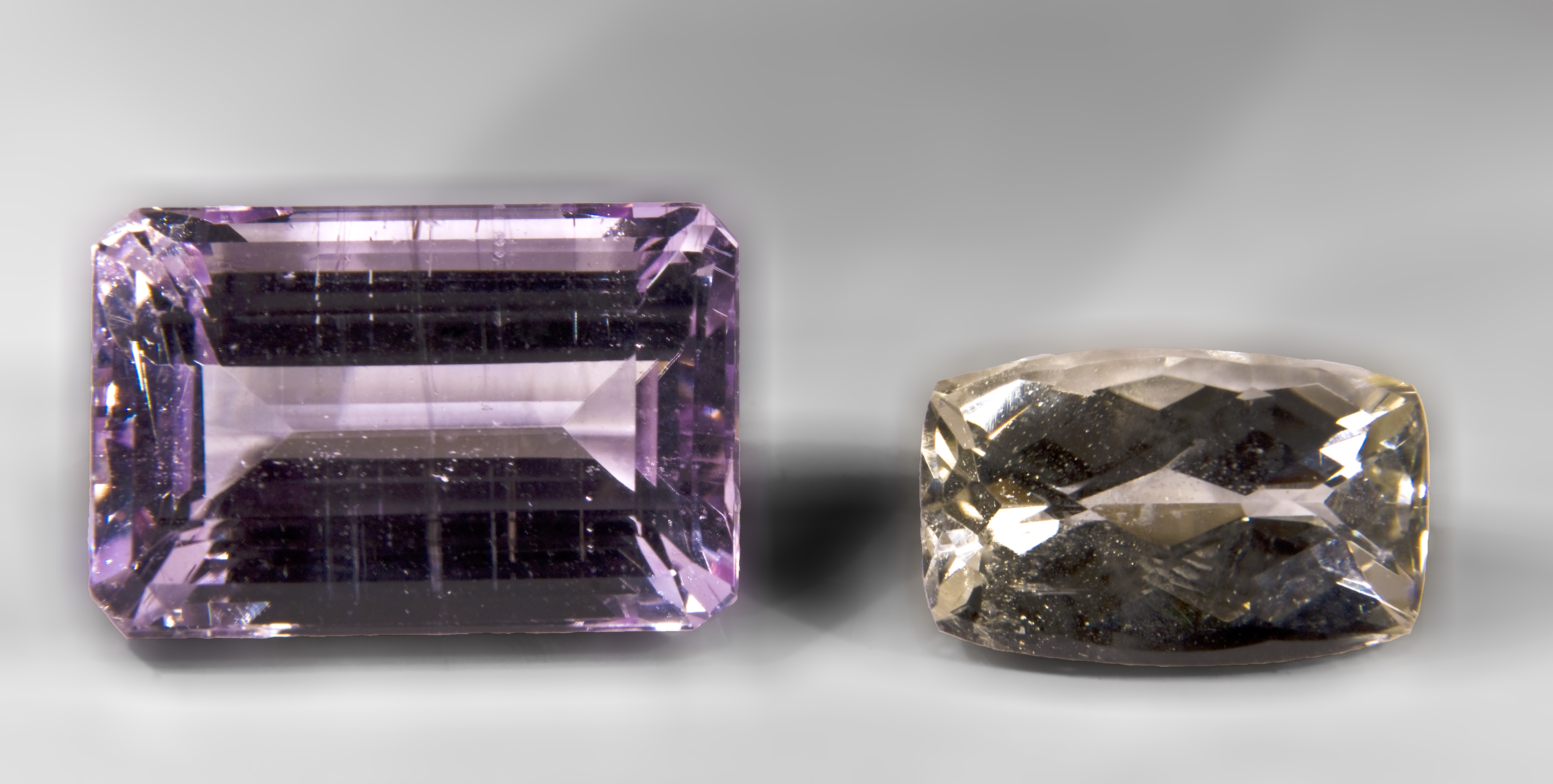 Kunzite and hiddenite cut